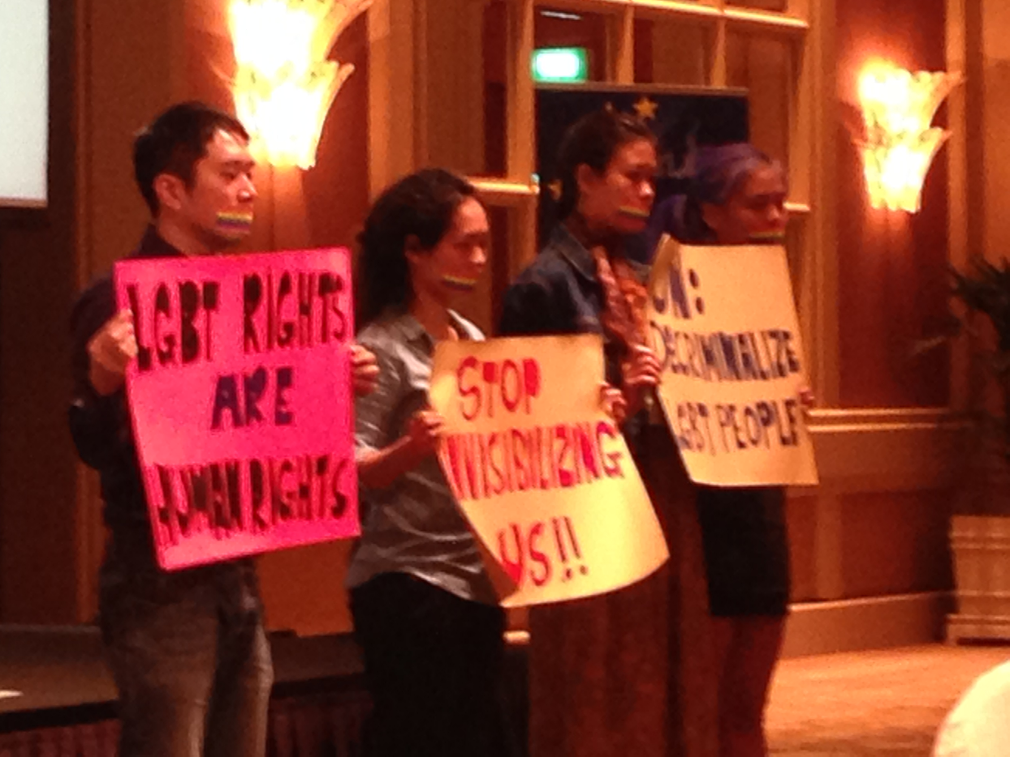 LGBT rights protesters at a seminar marking Human Rights Day organized by the Delegation of the European Union to Singapore entitled The Role of the Judiciary in the Promotion and Protection of Human Rights at the Conrad Centennial Singapore.